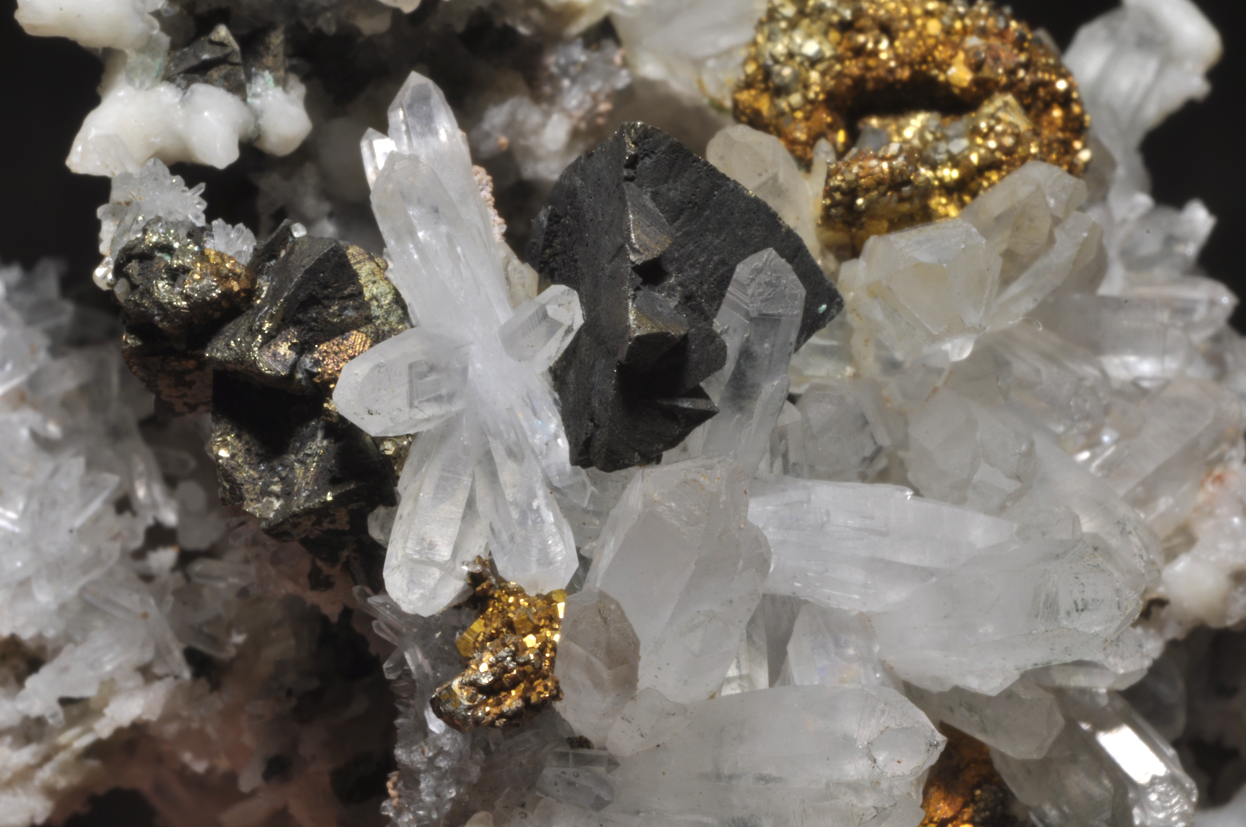 galena, quartz, pyrite, chalcopyrite